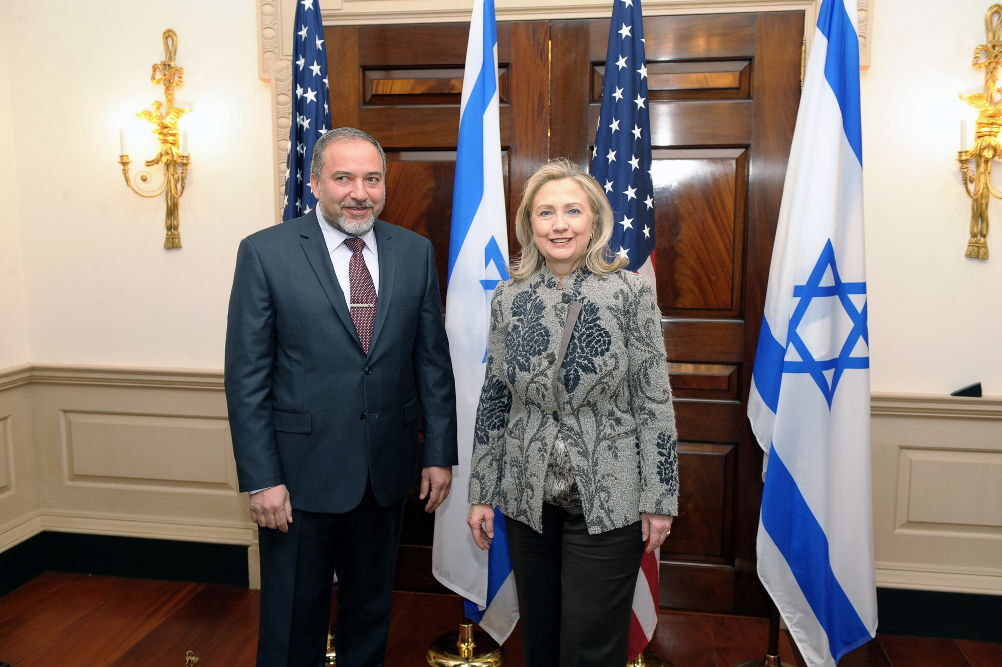 U.S. Secretary of State Hillary Rodham Clinton poses for a photo with Israeli Deputy Prime Minister and Foreign Minister Avigdor Liberman before their bilateral meeting at the U.S. Department of State in Washington, D.C., on February 7, 2012. [State Department photo/ Public Domain]